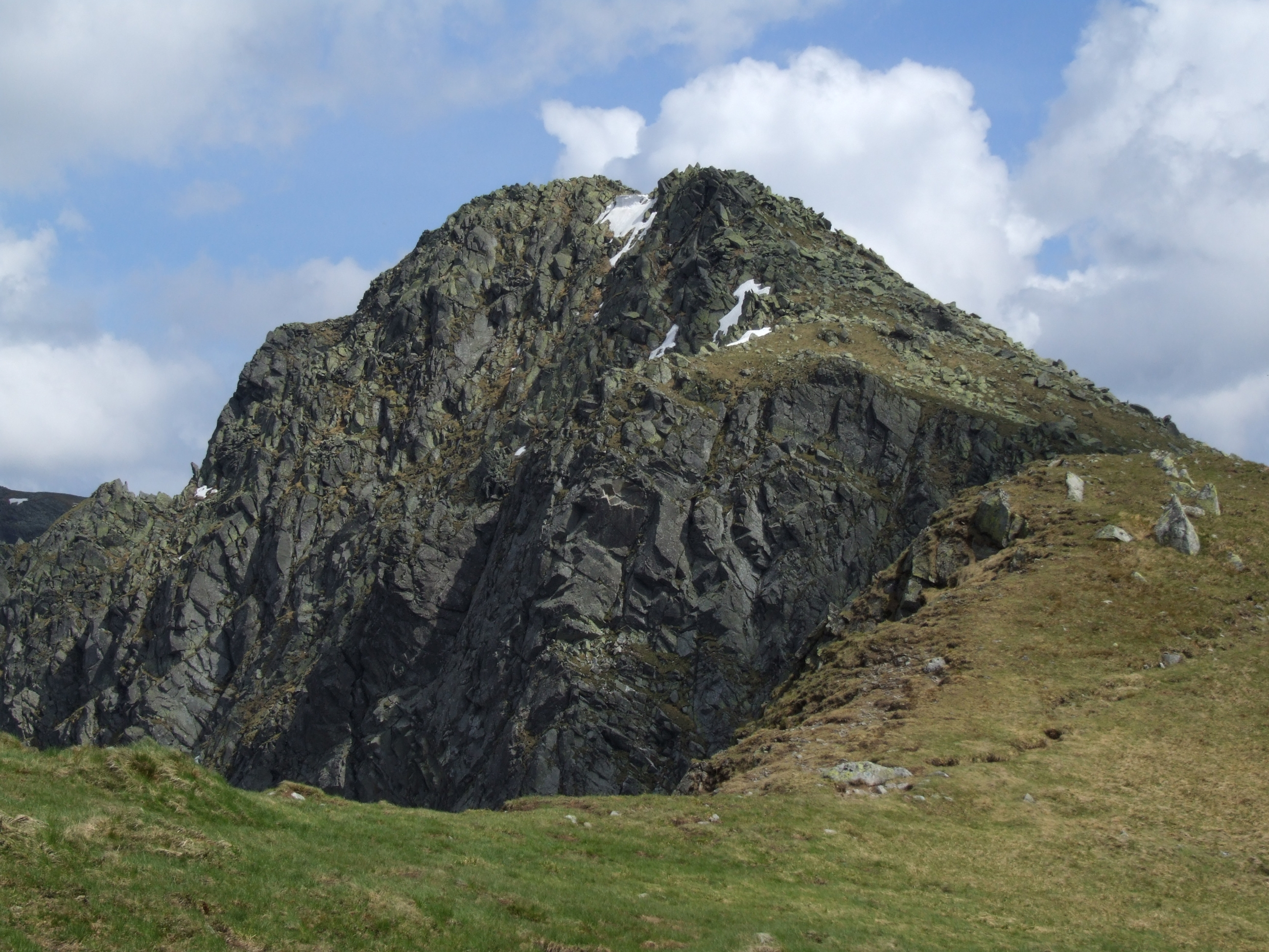 Ďumbier - the highest mountain in Low Tatras. View from mount Krúpova hoľa